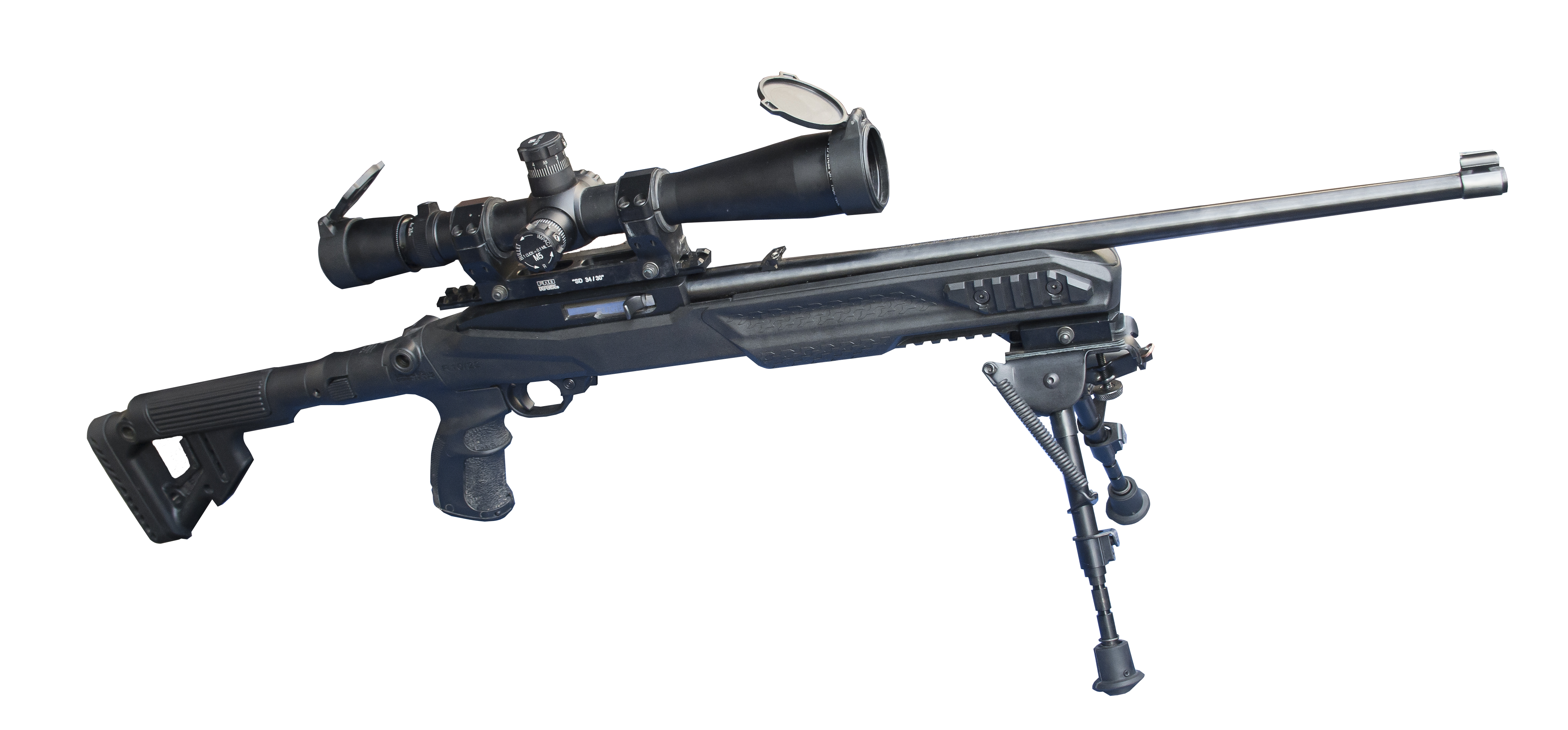 Ruger 10/22 rifle with Israeli stock, Israeli Police Open Day in Rishon LeZion